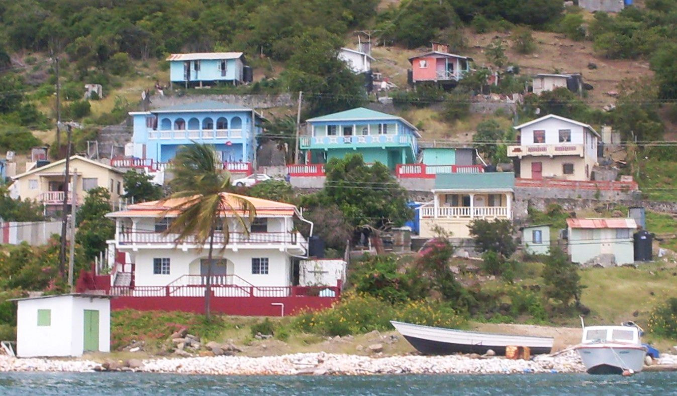 500px provided description: Breezy balustrades adorning homes in Ashton Bay, a fishing village on Union Island, Grenadines. [#architectural ,#balustrades ,#Grenadines ,#Union Island ,#Ashton Bay]